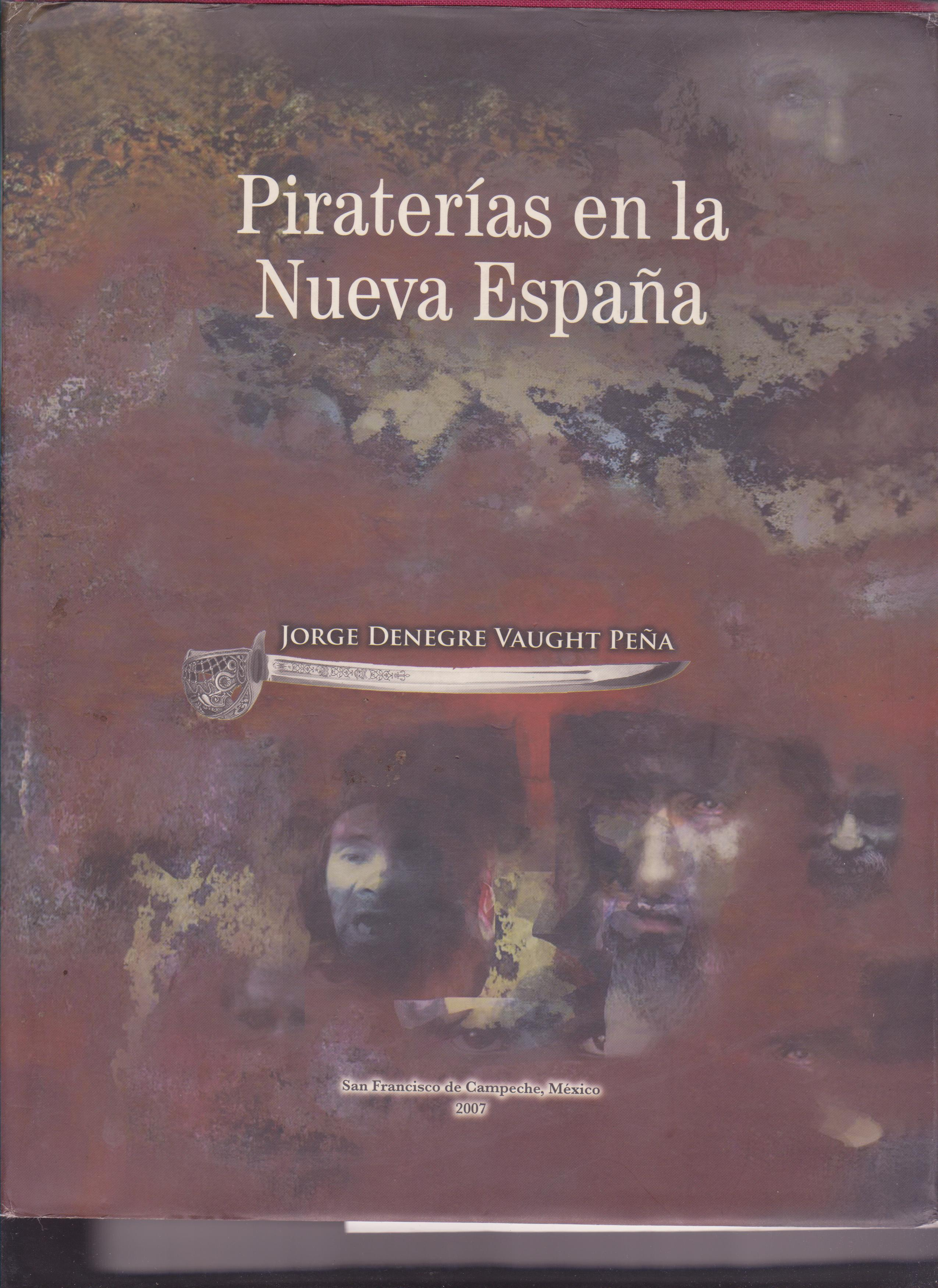 En la p.17 los editores ponen:"Editar este tipo de ejemplares, para la Colección Campeche, demuestra el interés del ejecutivo para rescatar la historia del estado, el cual no se constriñe al vaso legado precolombino, sino que se suma a él sus acontevimientos virreinales, entre ellos los feroces ataques piráticos que en esta ocasión se abordan con talento y maestría.."